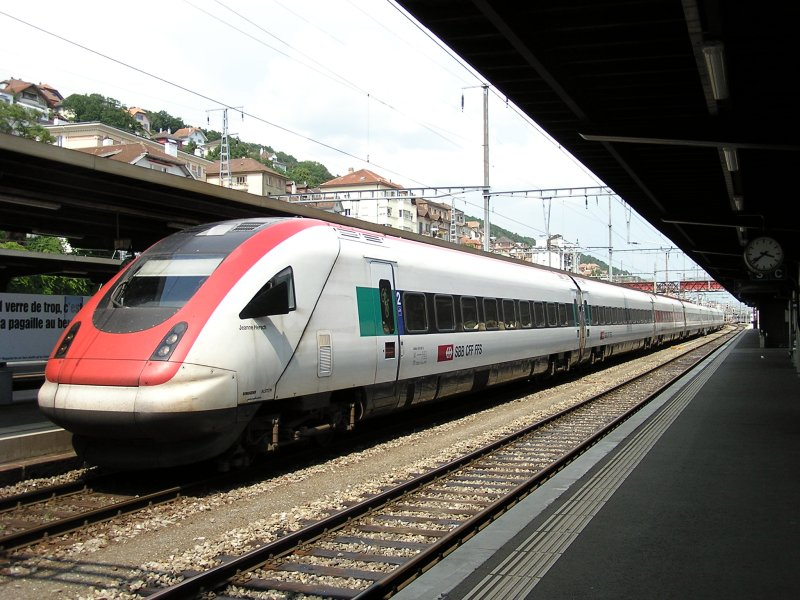 RABDe 500 in Neuchâtel (Swiss)